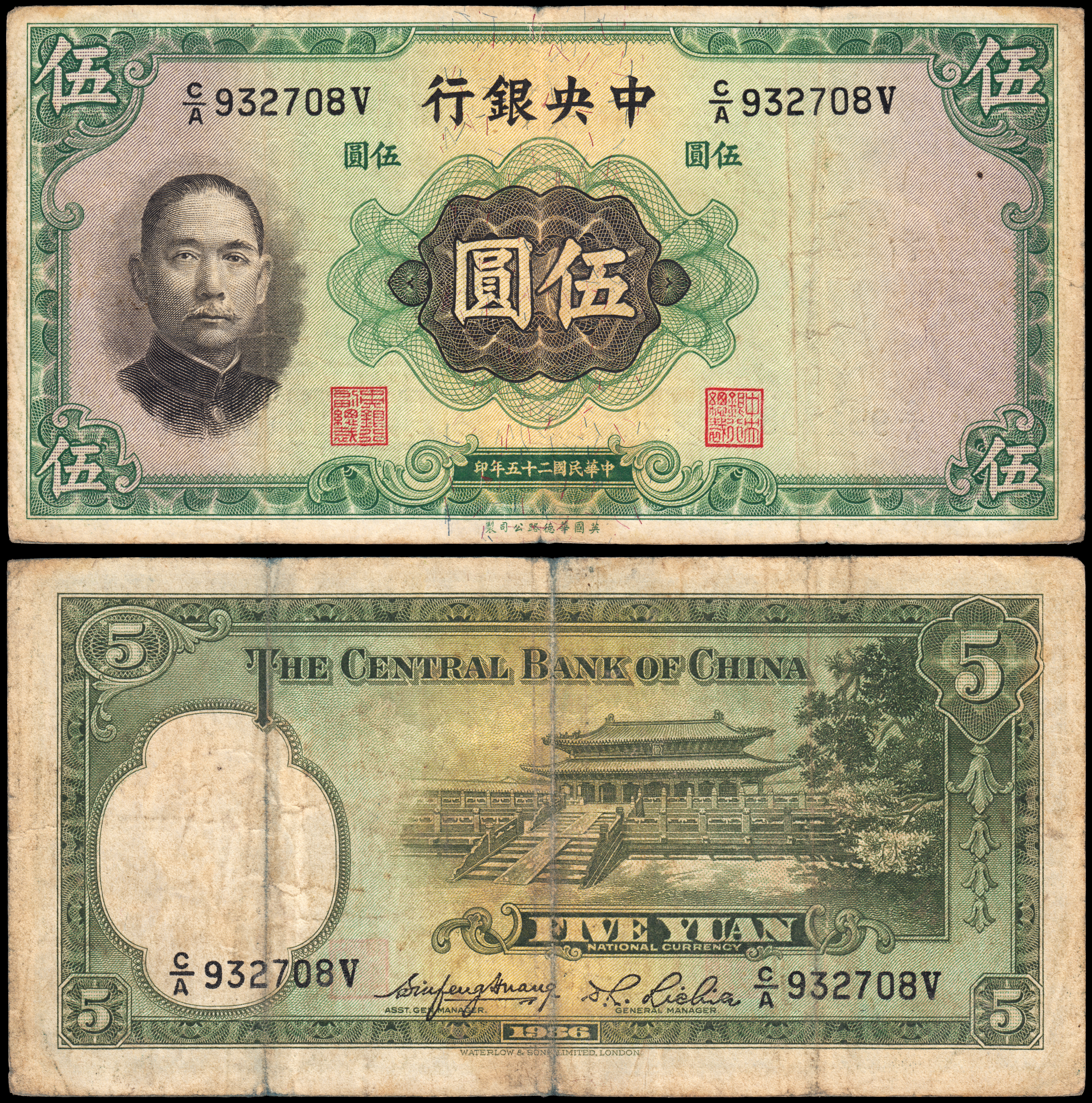 5 Yuan banknote dated 1936. Printed by Waterlow & Sons for the Central Bank of China.